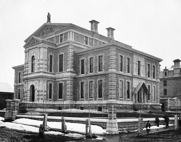 Carleton County Court House, Ottawa